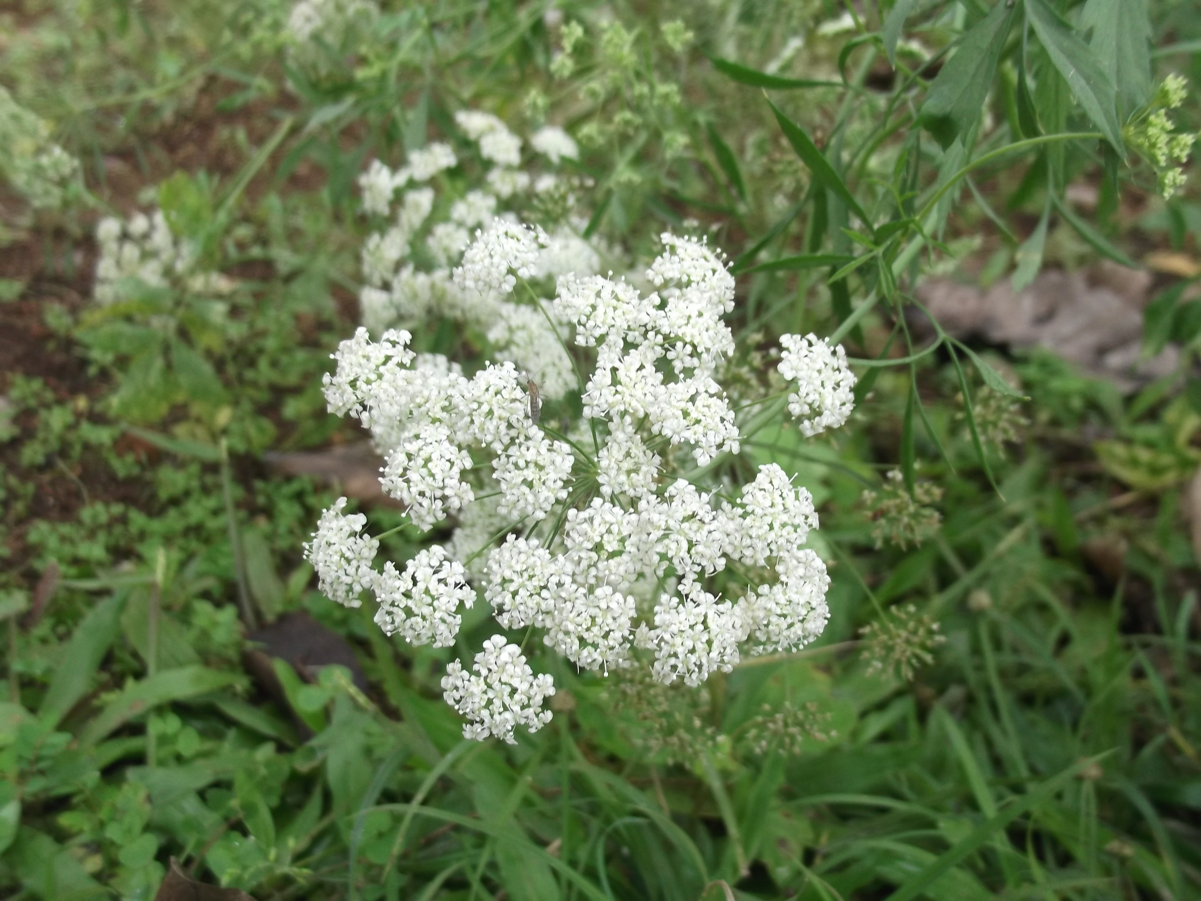 Herb,umbels,flowers white.